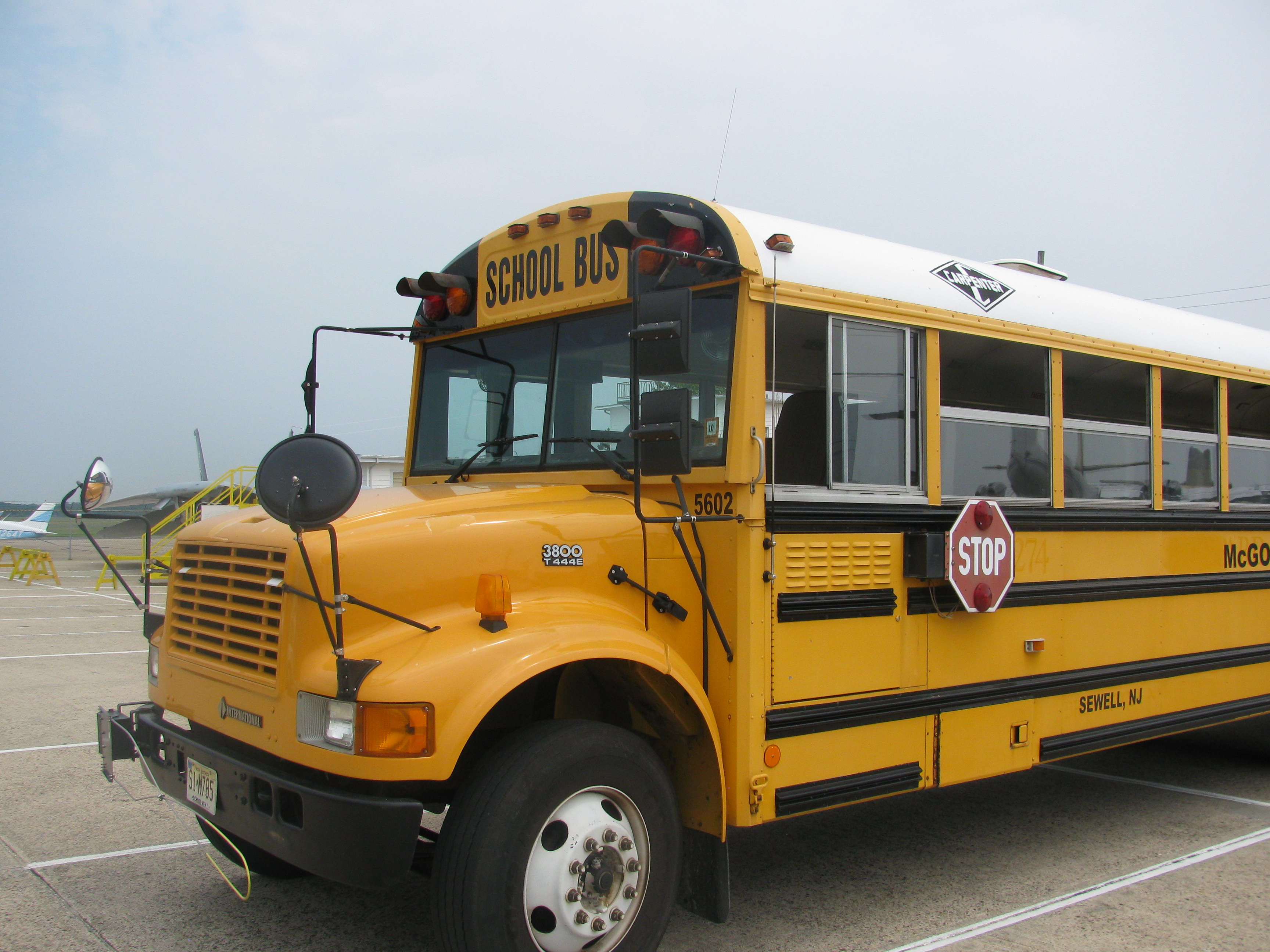 A closeup front 3/4 view of a 2000-2001 Carpenter Classic 2000 school bus built on an International 3800 chassis.